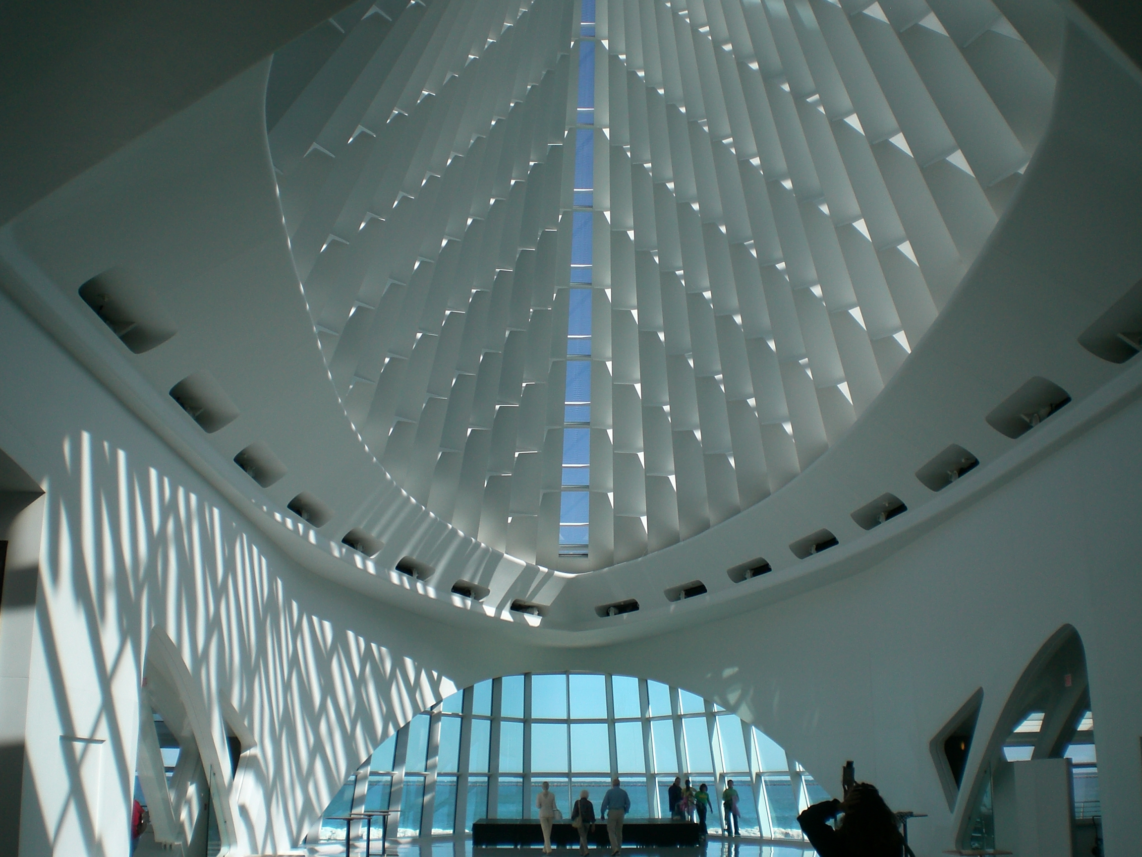 Interior of the Milwaukee Art Museum